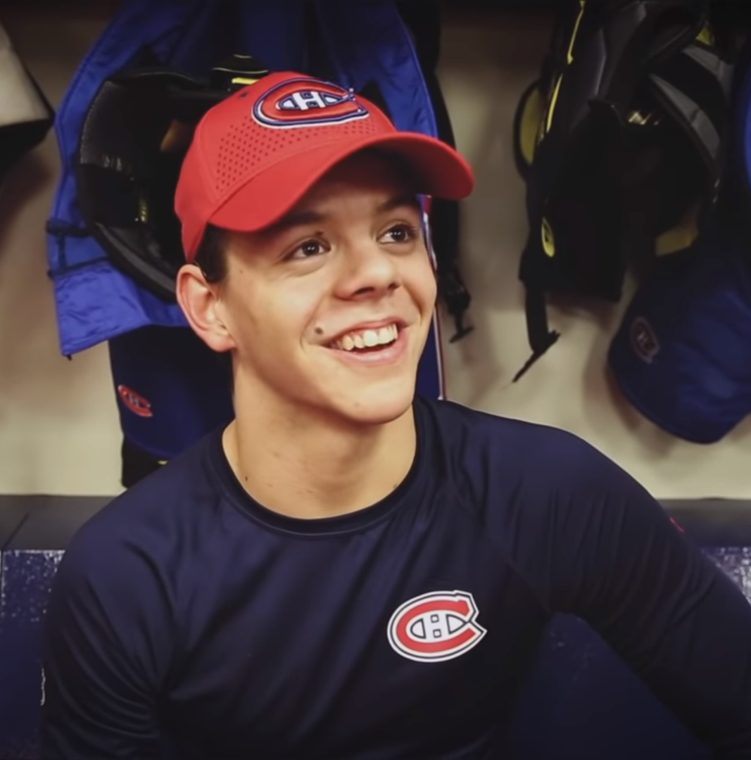 Jesperi Kotkaniemi during an interview in 2018.